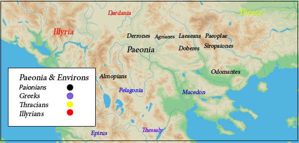 Map of Paeonia & Environs prior to Greek conquest Own work data from An Inventory of Archaic and Classical Poleis: An Investigation Conducted by The Copenhagen Polis Centre for the Danish National Research Foundation by Mogens Herman Hansen and Thomas Heine Nielsen,2005,ISBN 0-19-814099-1 The Histories (Penguin Classics) by Herodotus, John M. Marincola, and Aubrey de Selincourt,ISBN 0-14-044908-6,2003 Blank map from Image:Map greek sanctuaries-fr.svg.